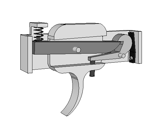 single set trigger (Französischer Stecher)